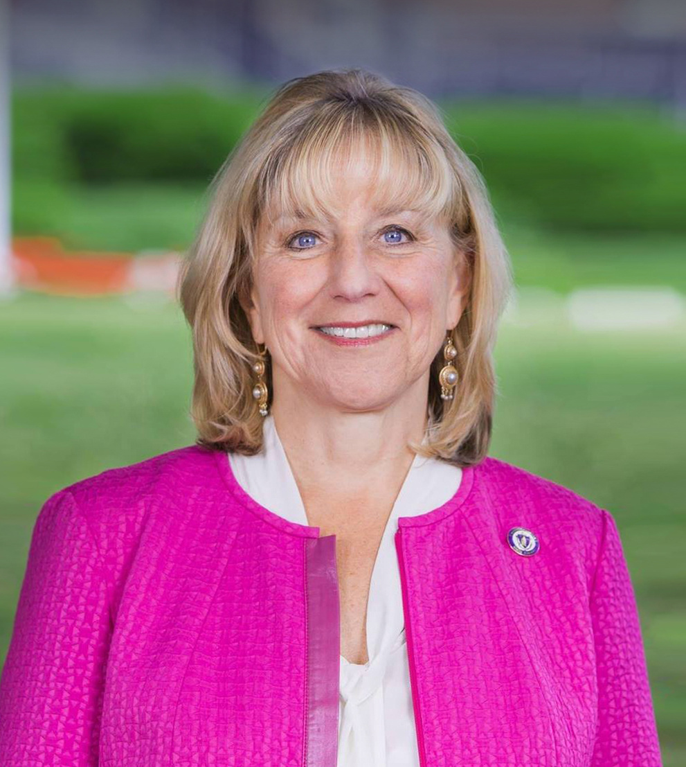 Portrait of Karen E. Spilka, current President of the Massachusetts Senate.